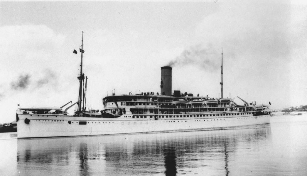 Op Ten Noort (ship).